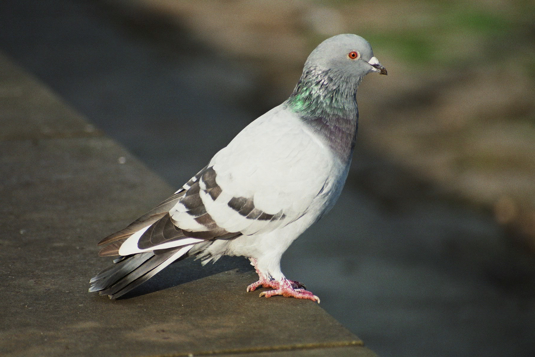 This image shows a Rock Pigeon (Columba livia).